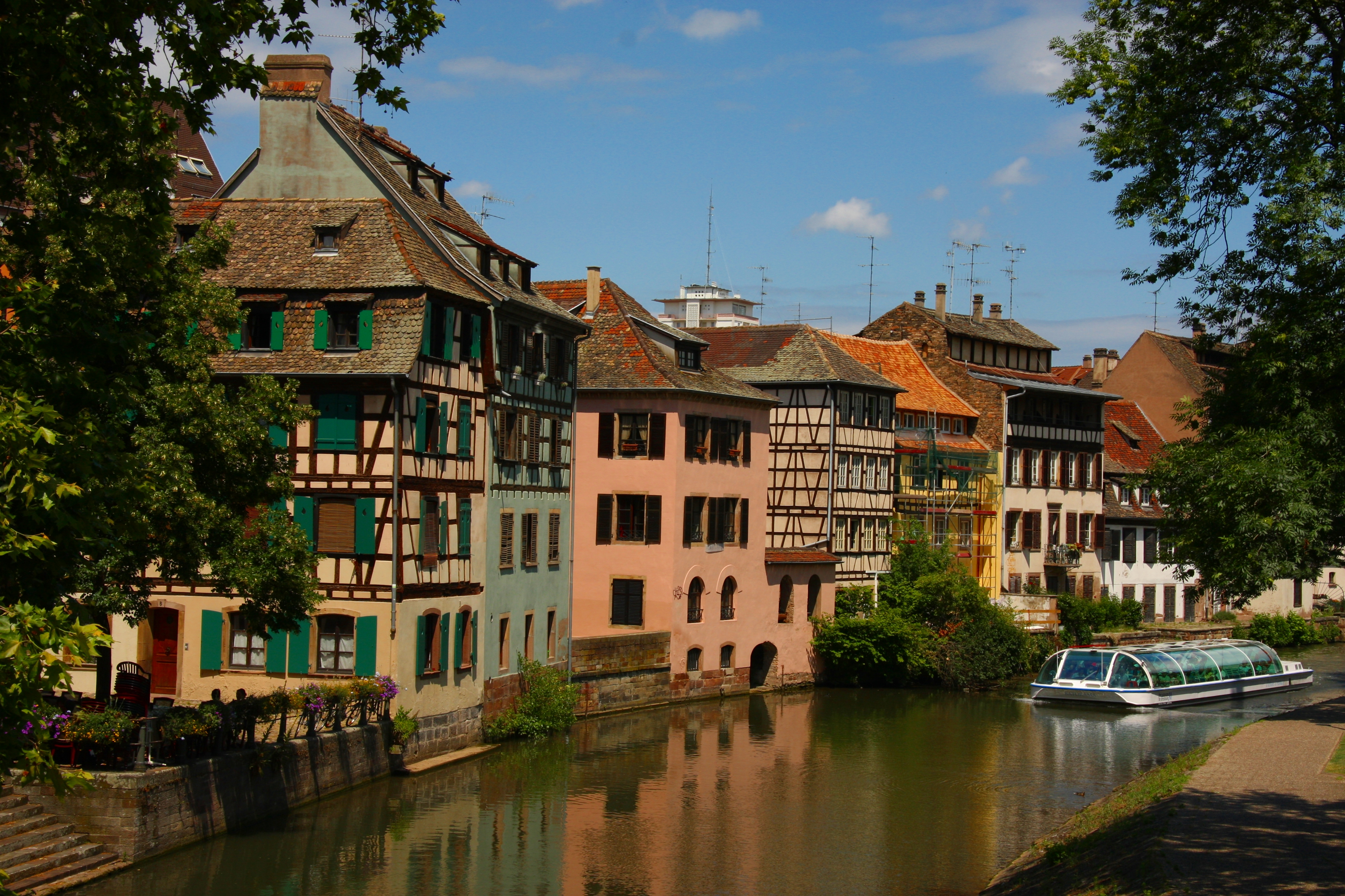 Strasbourg